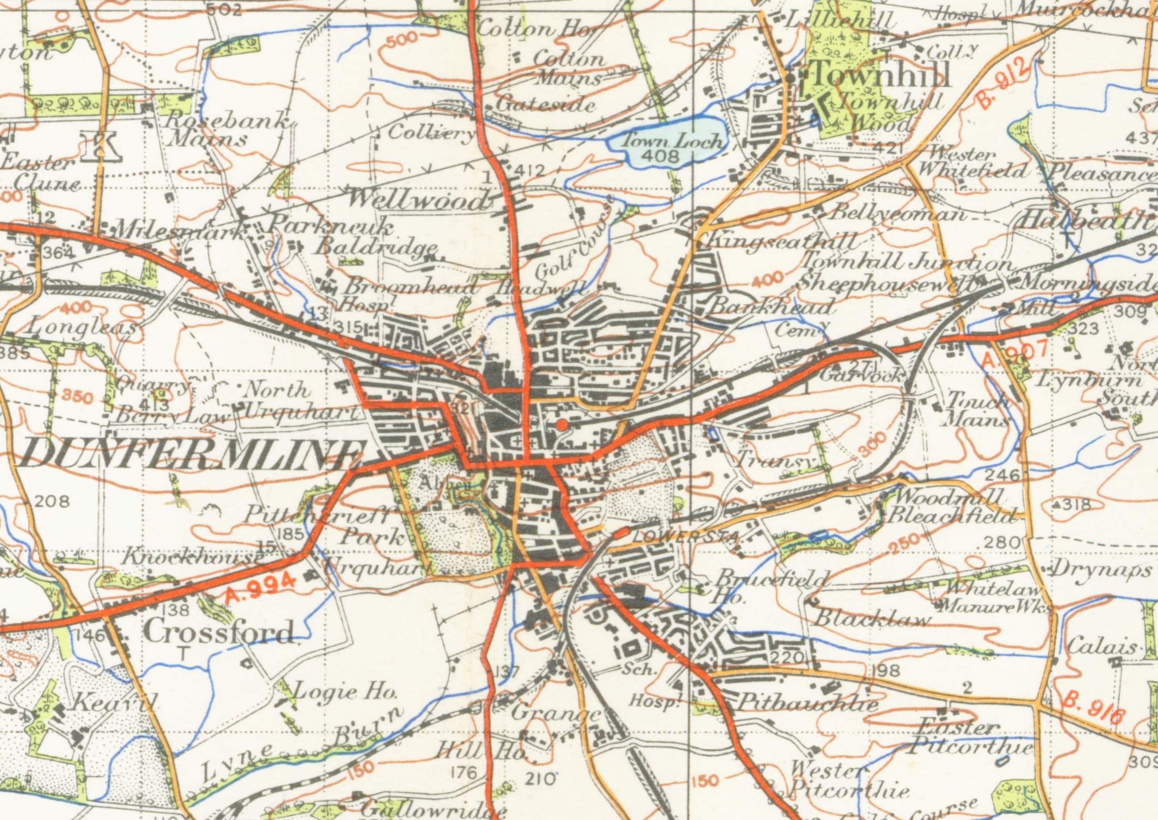 map of Dunfermline 1 inch to the mile scale scanned at 600 DPI